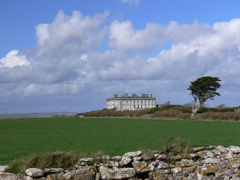 Loftus Hall on a fine day in March